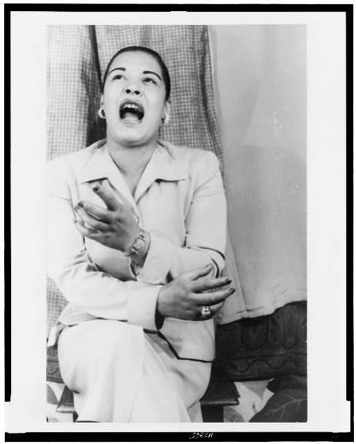 Billie Holiday, 23 March 1949